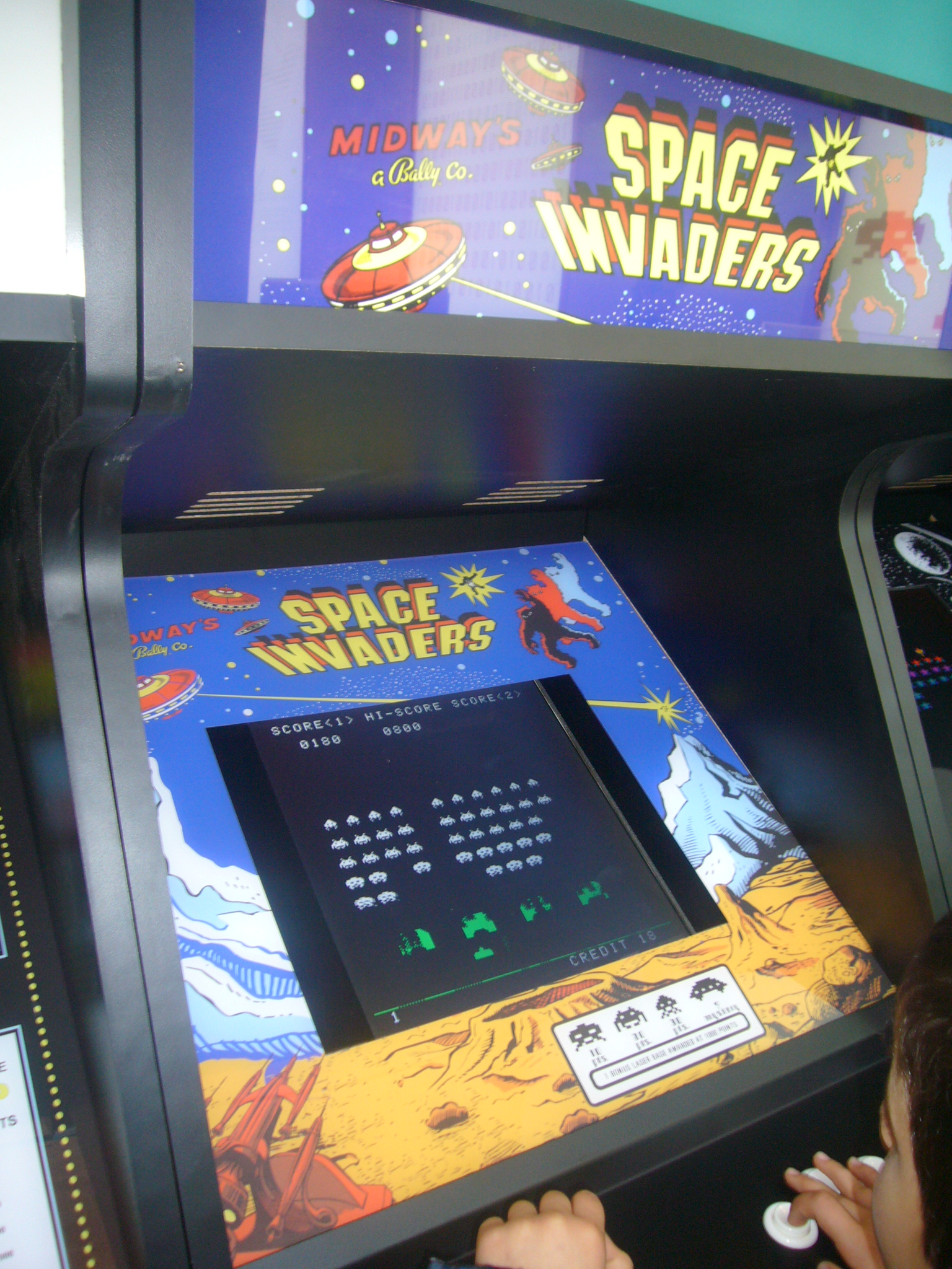 Space invaders - Midway's, displayed at mnactec